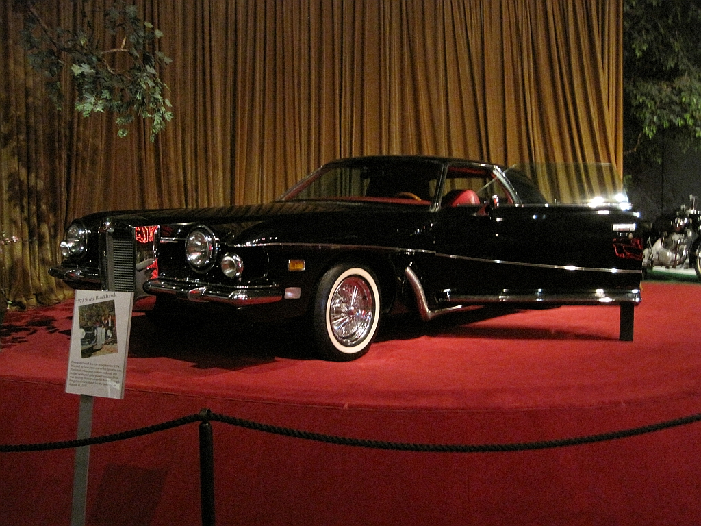 Elvis Presley Automobile Museum at Graceland in Memphis, Tennessee. 1973 Stutz Blackhawk